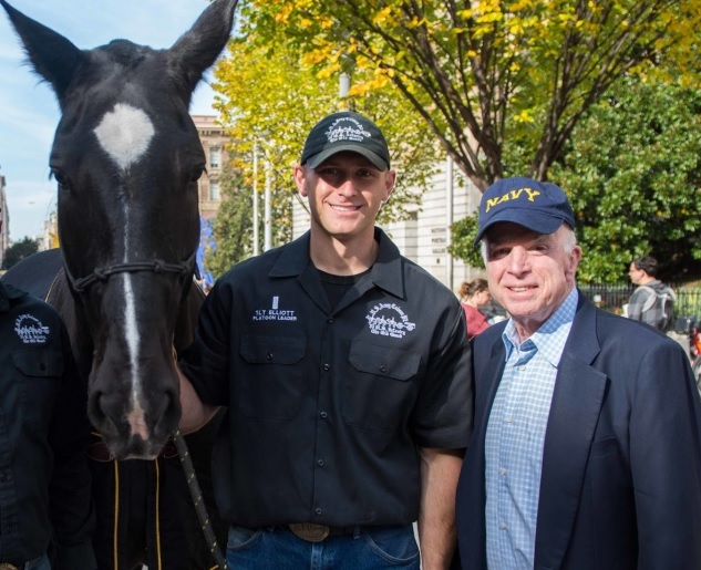 Pictured in 2017 left to right: Klinger, unidentified U.S. Army officer, Senator John McCain